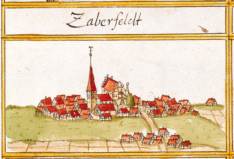 View of Zaberfeld from the forest register books created by Andreas Kieser